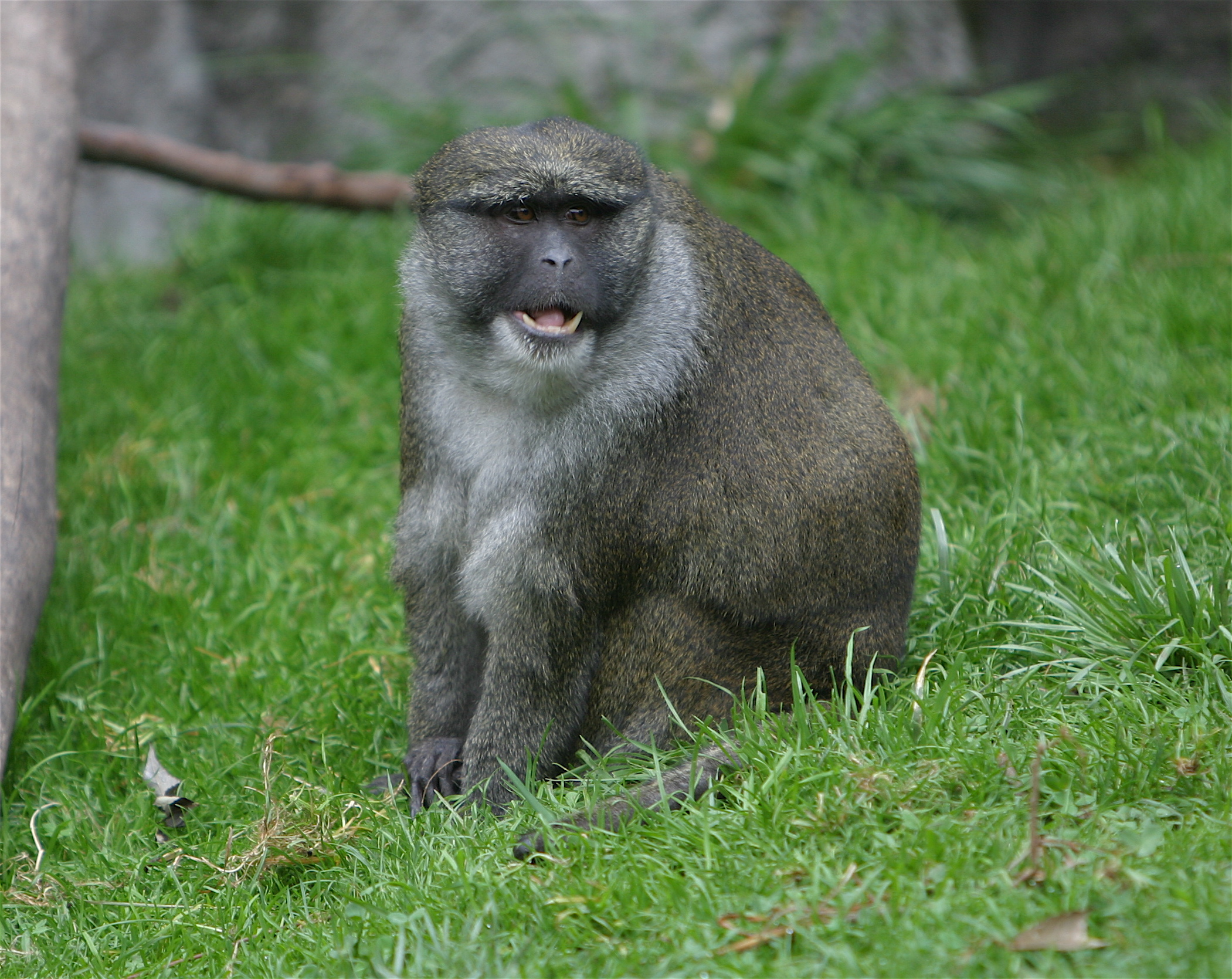 Allen's Swamp Monkey (Allenopithecus) at the Oregon Zoo